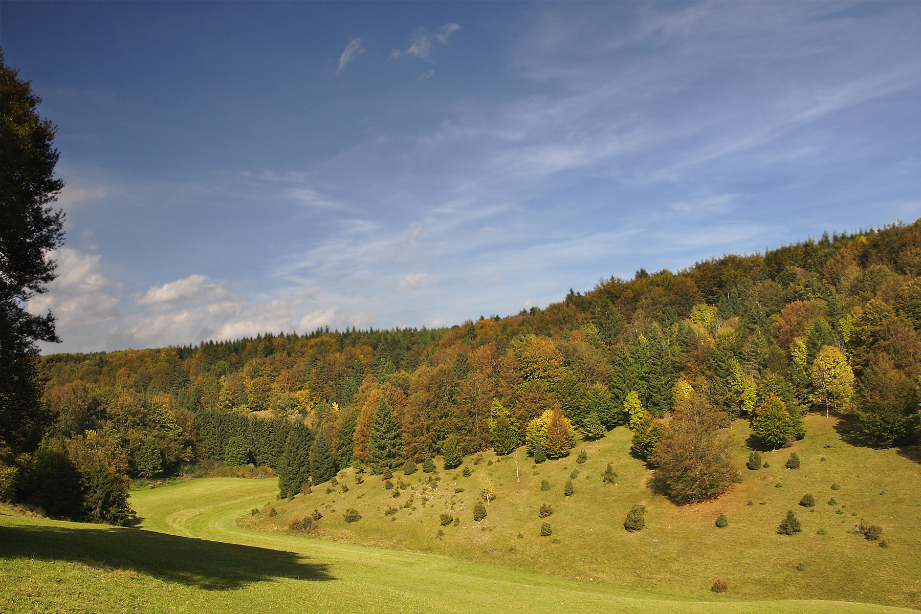 Böttental, a legally protected Naturschutzgebiet, dry valley of the Middle Swabian Alb. The slope on the right of the valley is typical juniper heath The environmental conditions of the protected area provide a living place for a rich assemblage of plants and animals with an extension risk.